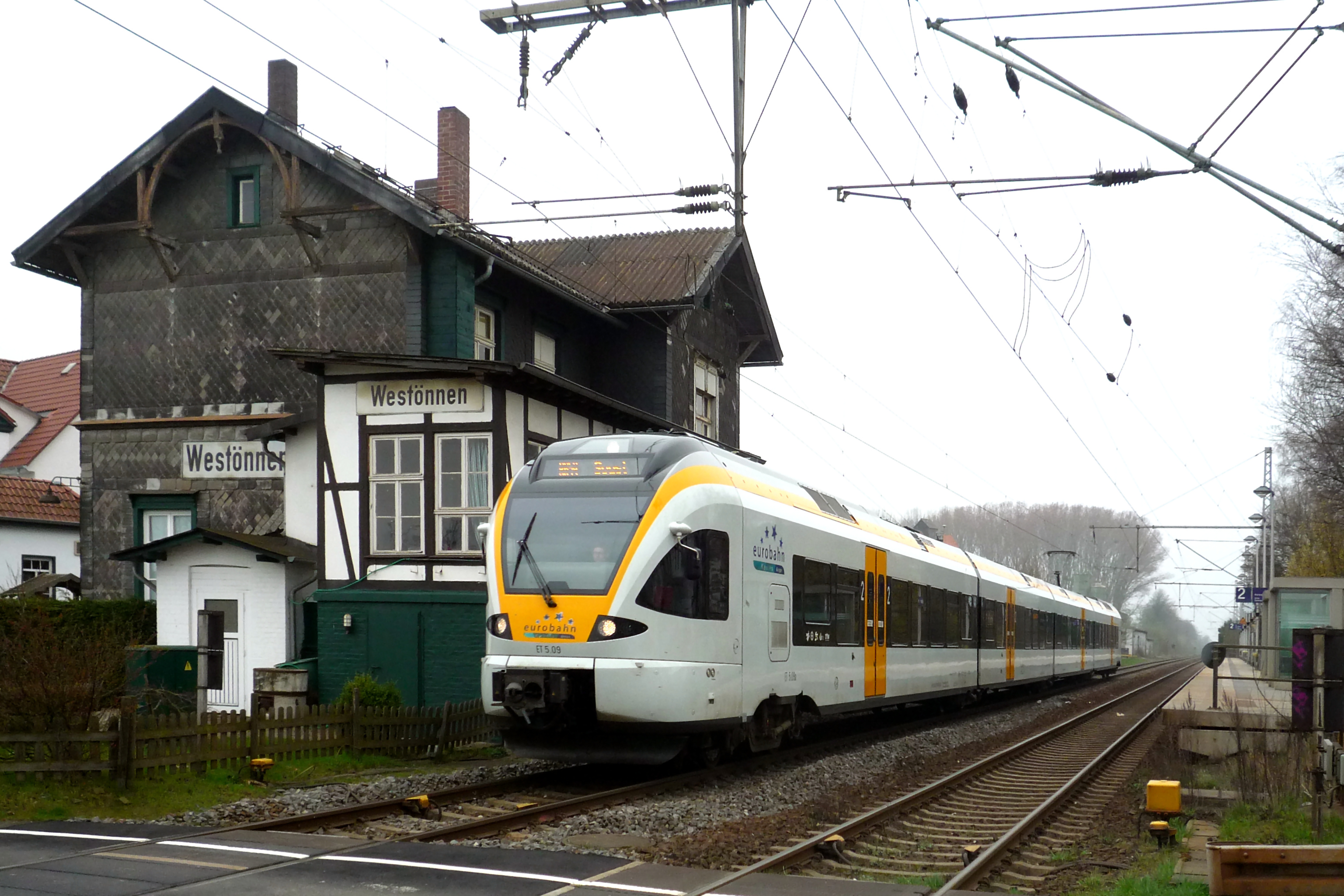 Stadler FLIRT as eurobahn ET5.09 a in Westönnen (Germany)